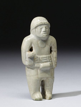 The identification of this figure as a ballplayer rests on the characteristically wide belt, or "yoke," around his waist. He carries a rectangular item in his left arm, and his right hand clutches a cylindrical object, perhaps a ball-striking implement used in some versions of the game. Underneath the yoke, the player wears a loincloth and hip wrap, which falls below his buttocks. His head is tied with a wide knotted strap, and his large disk pendant resembles the divining mirror seen on other Olmec-style figurines. The Mesoamerican ballgame was a multifaceted event. It was played as sport, and among the sixteenth-century Aztecs, there was much betting and revelry. The game also was a ritualized reflection of cosmic forces, a ceremonial petition for fertility, and a rite during which the supernatural realm was made manifest. The ballgame has very ancient origins in Mesoamerica; the earliest known ballcourt, dating to about 1400 BCE, was found at Paso de la Amada in Chiapas, Mexico.